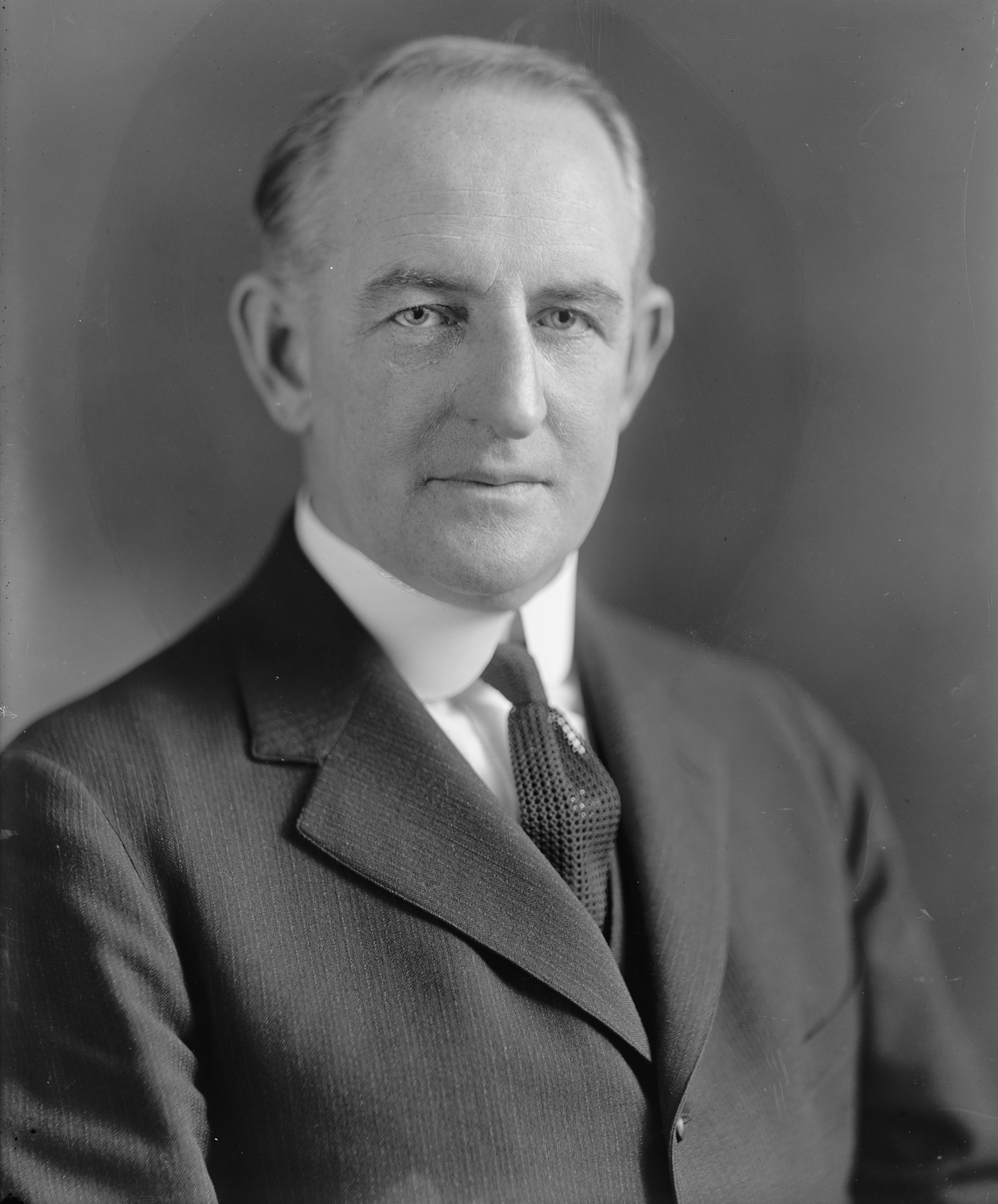 Thomas Edwin Campbell, Second Governor of Arizona